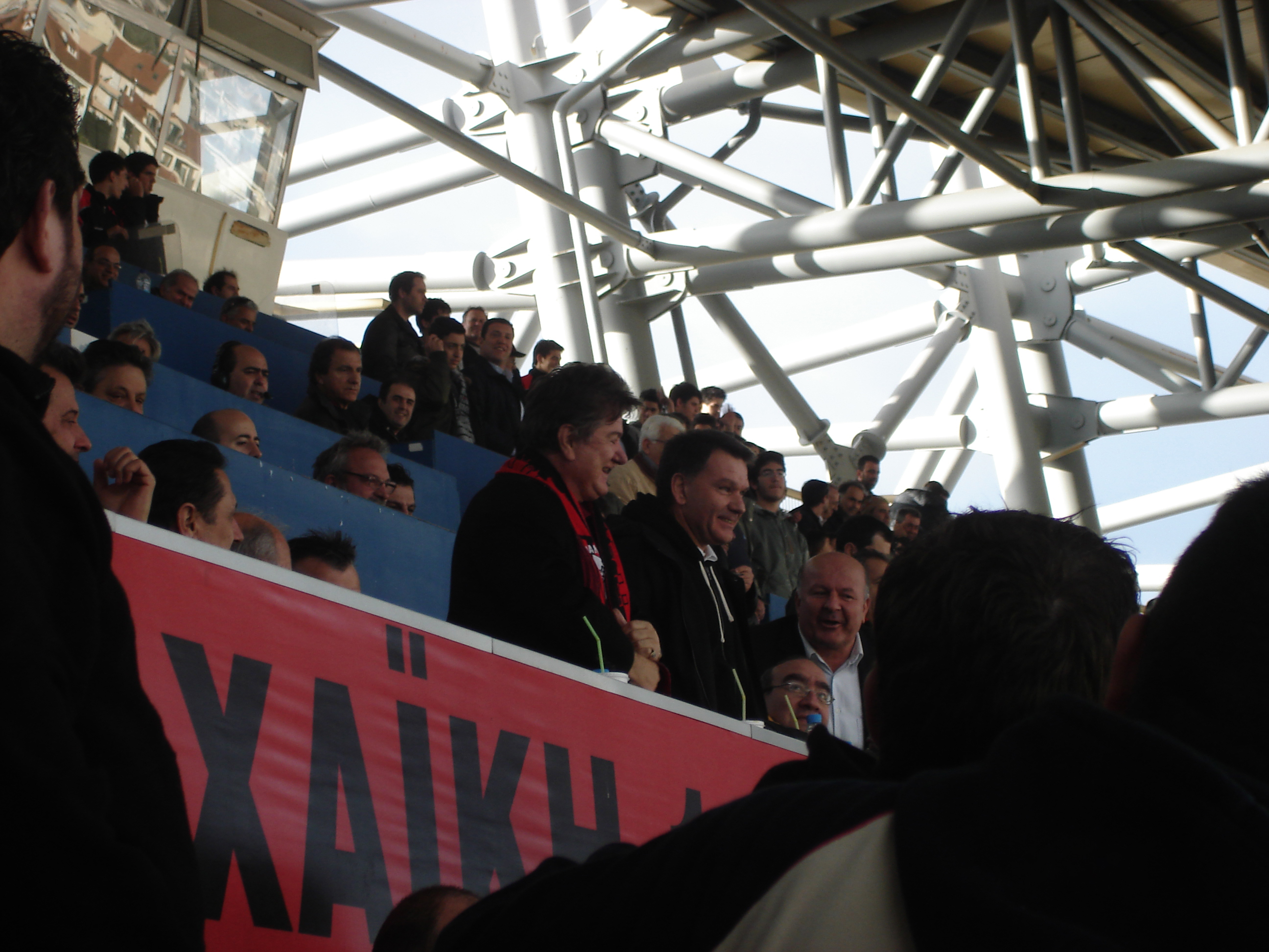 Makris-Kougias president Panachaiki